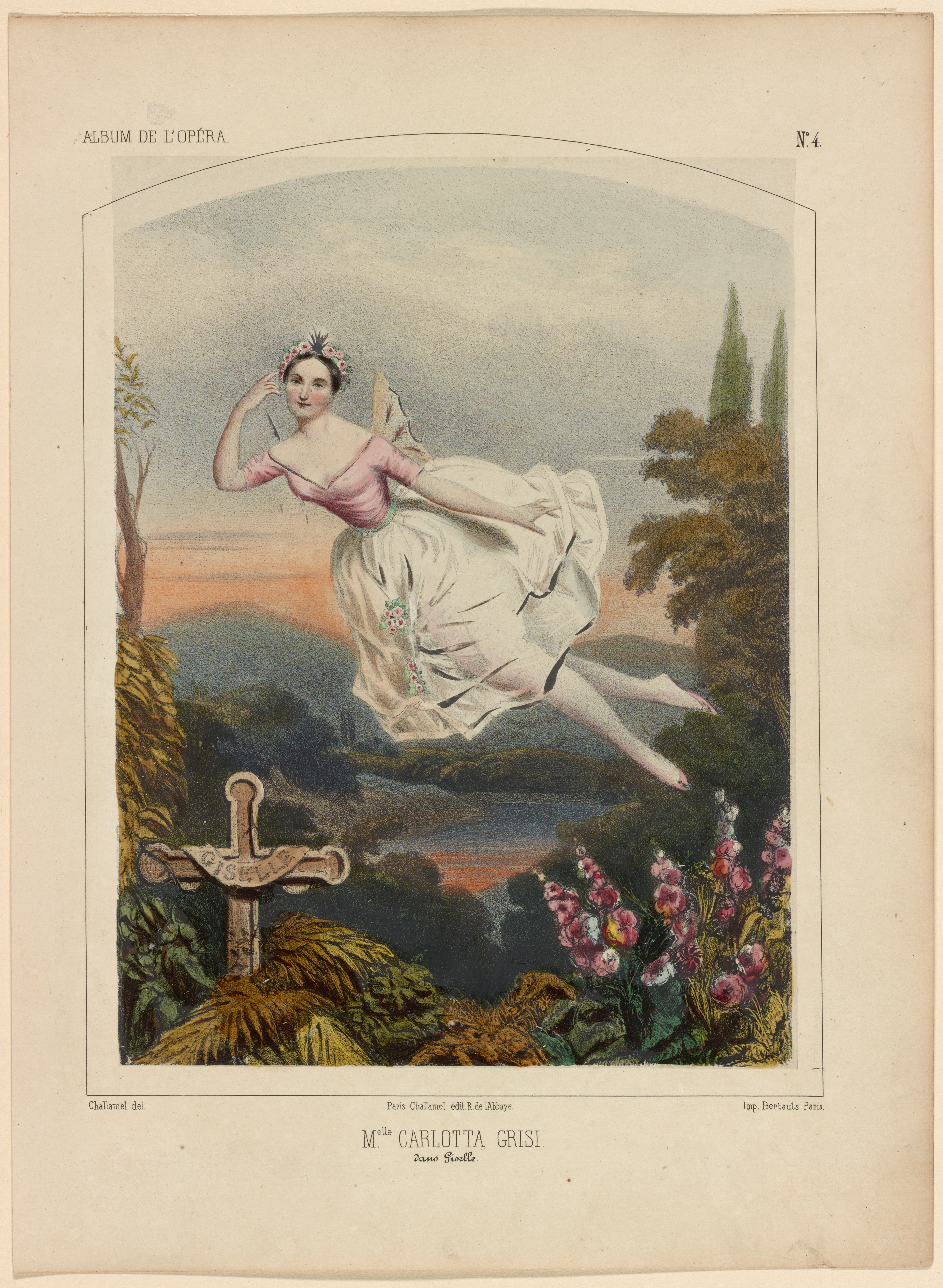 Depicts Grisi floating in air, feet to left, index finger of right hand at her temple. Woodland scene, lake background center. Grave marker with name Giselle lower left.